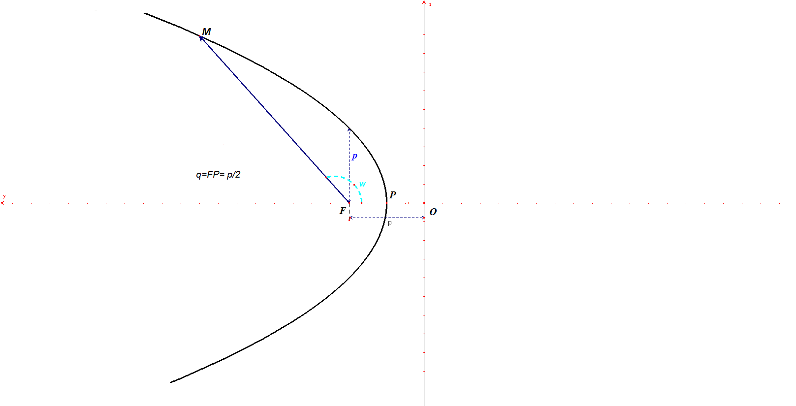 Trajectory of a material body following a parabolic Kepler orbit (e=1)